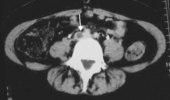 Abdominal computed tomographic scan showing a common iliac vein thrombosis.